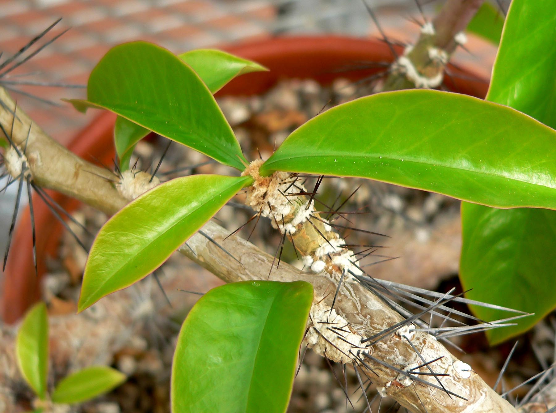 Photo of Pereskia tampicana at the University of California Botanical Garden